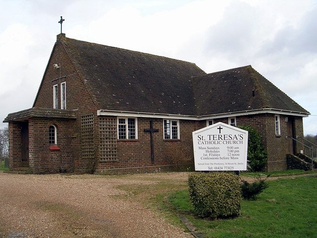 St Teresa's Catholic Church A cartographic conundrum; this tiny catholic Church is marked on the OS map as a chapel.